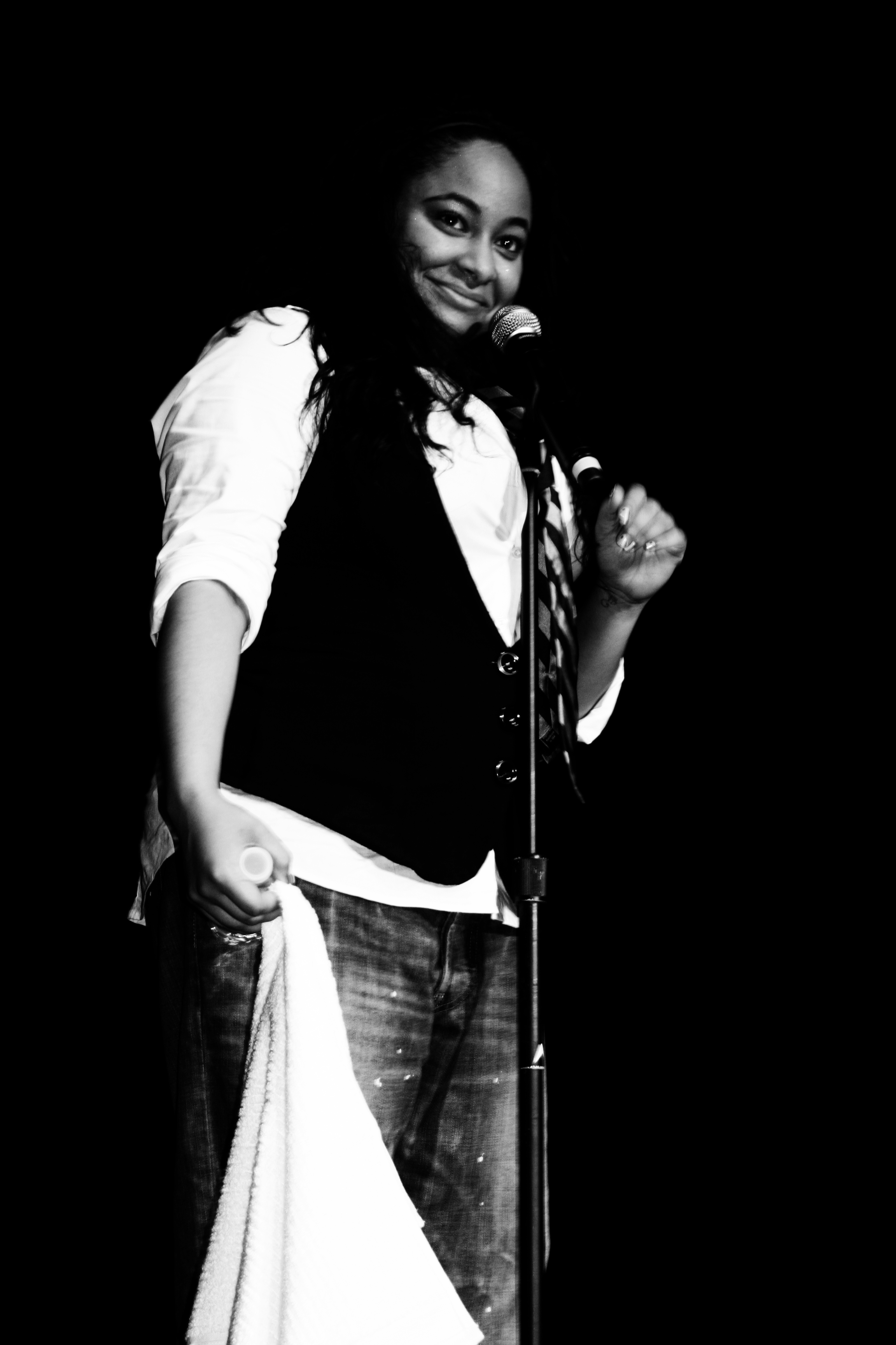 Raven-Symoné at a concert in 2008.